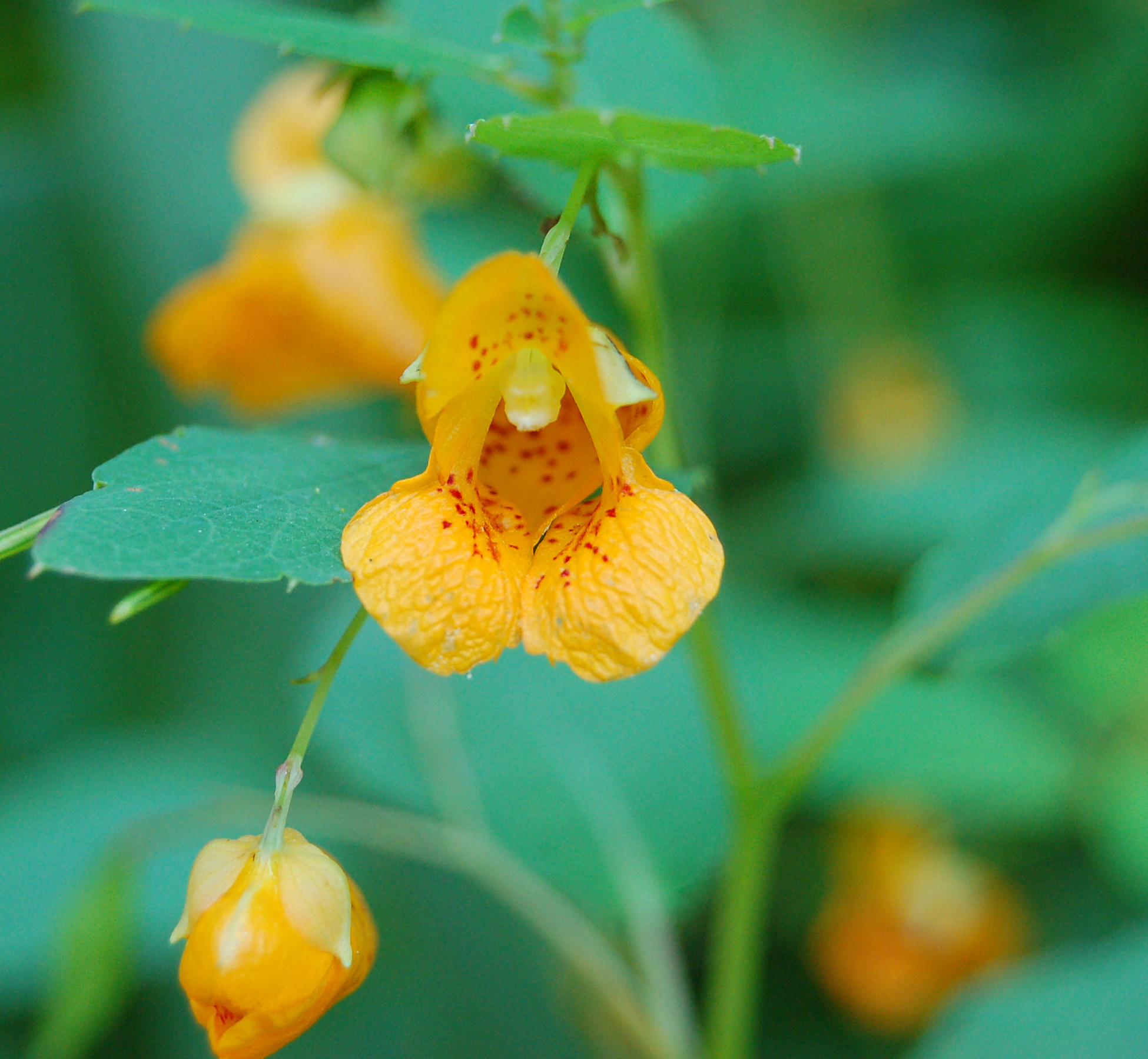 A photograph of the flower of the Common Jewel Weed (Impatiens capensis). Photo taken at the Tyler Arboretum.